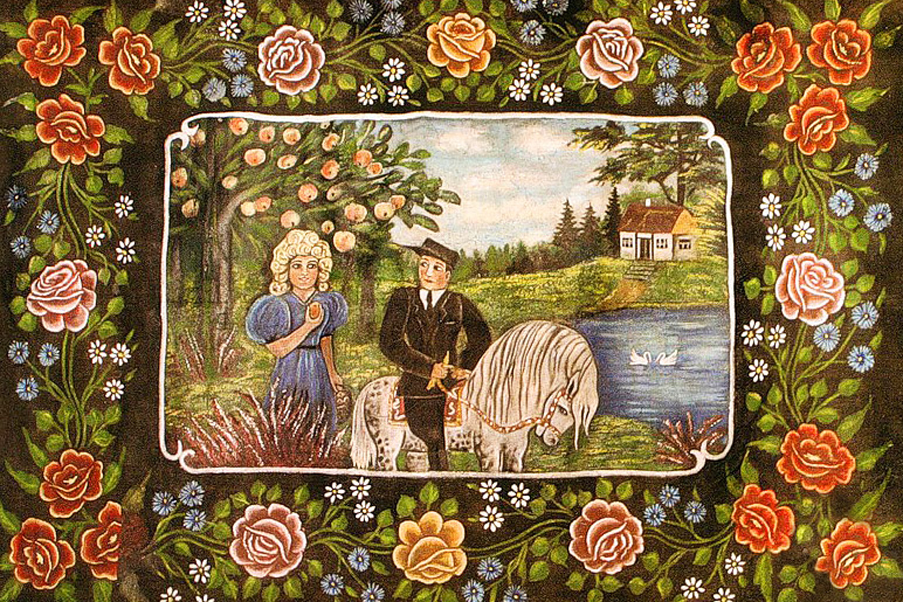 Alena Kish picture